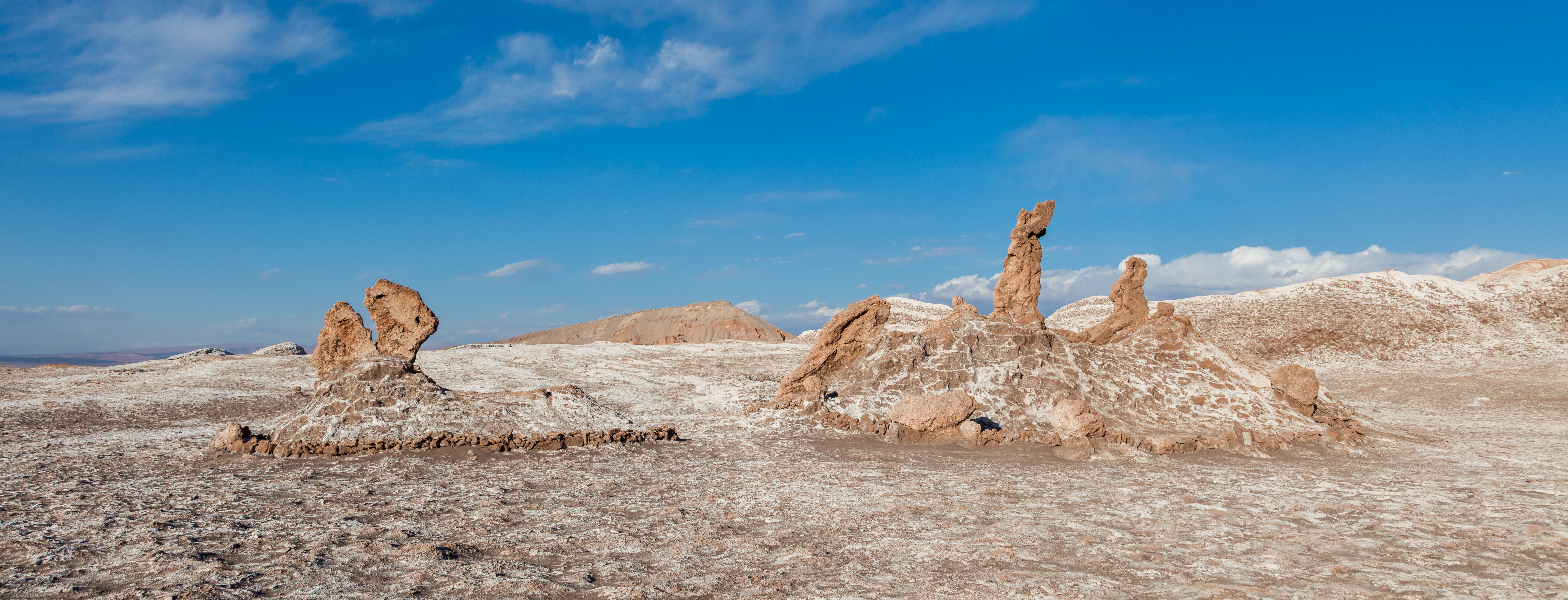 Las Tres Marías, Valle de la Luna, San Pedro de Atacama, Chile